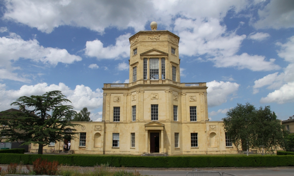 South side of the Radcliffe Observatory, Oxford